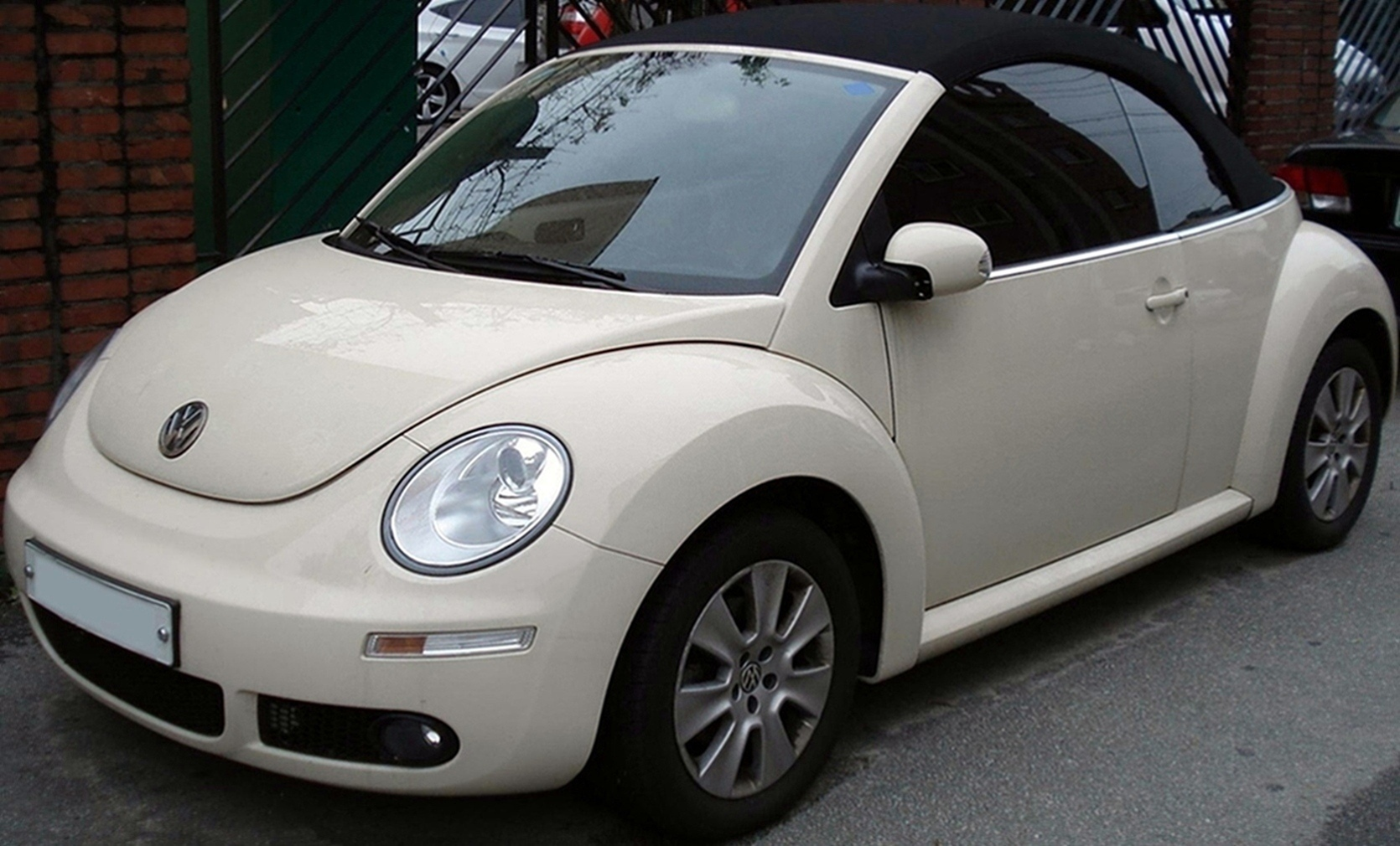 Volkswagen New Beetle Cabriolet